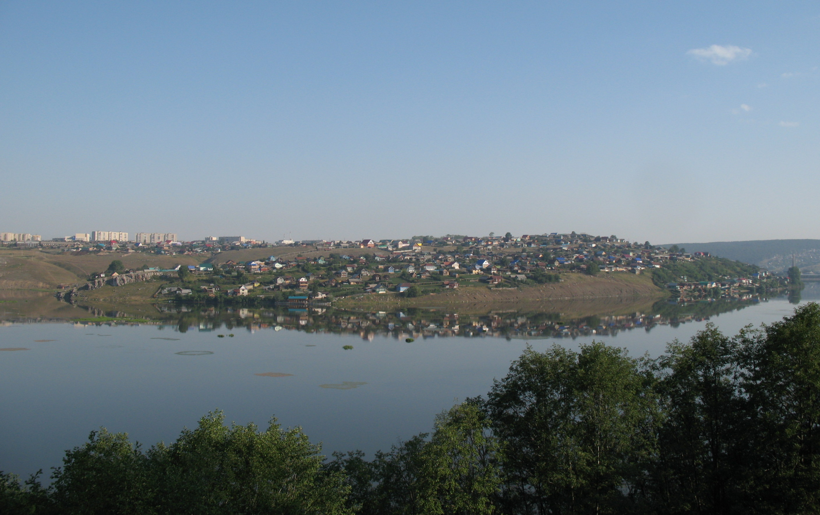 View of the Ust-Katav from Katav pond